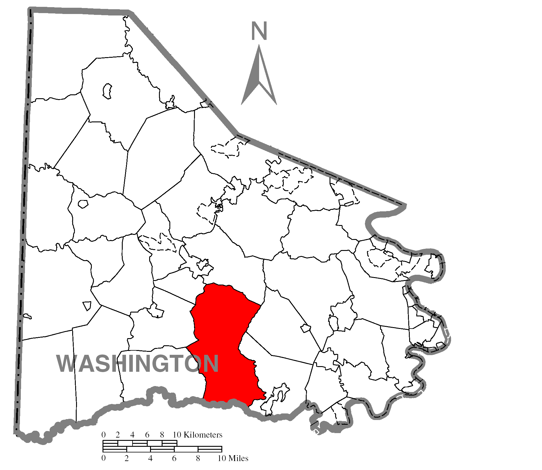 Map of Washington County higlighting Amwell Township.